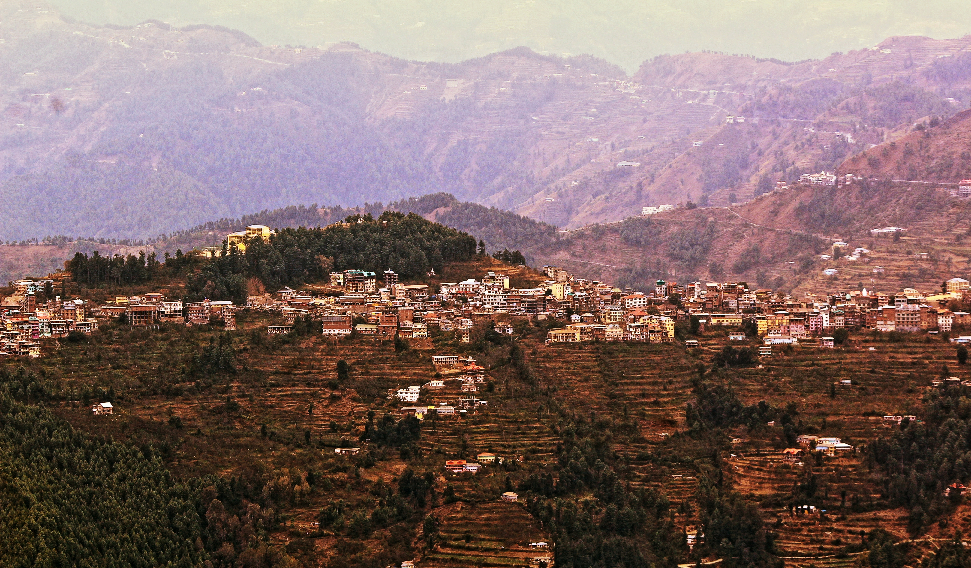 Theog Town View from Kanag Tibba